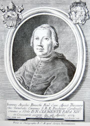 Cardinal Gianangelo Braschi, future Pope Pius VI